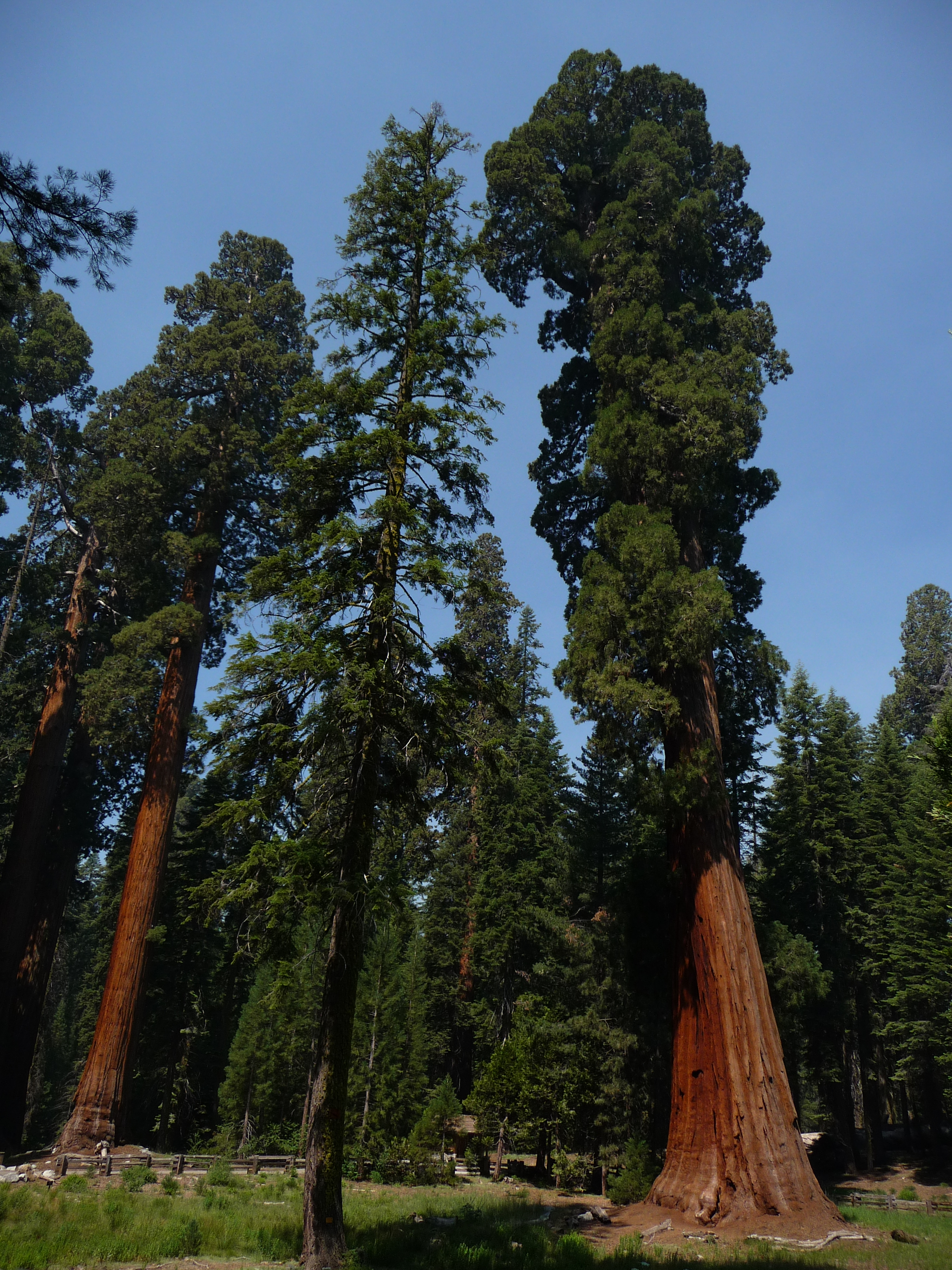 Sequoia National Park - Giant Sequoias leaning along Big Trees Trail